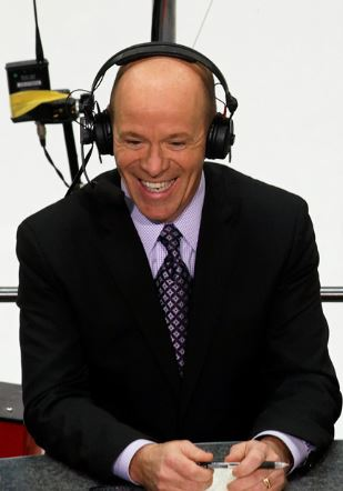 A photo of Darren Pang taken on February 21, 2010.